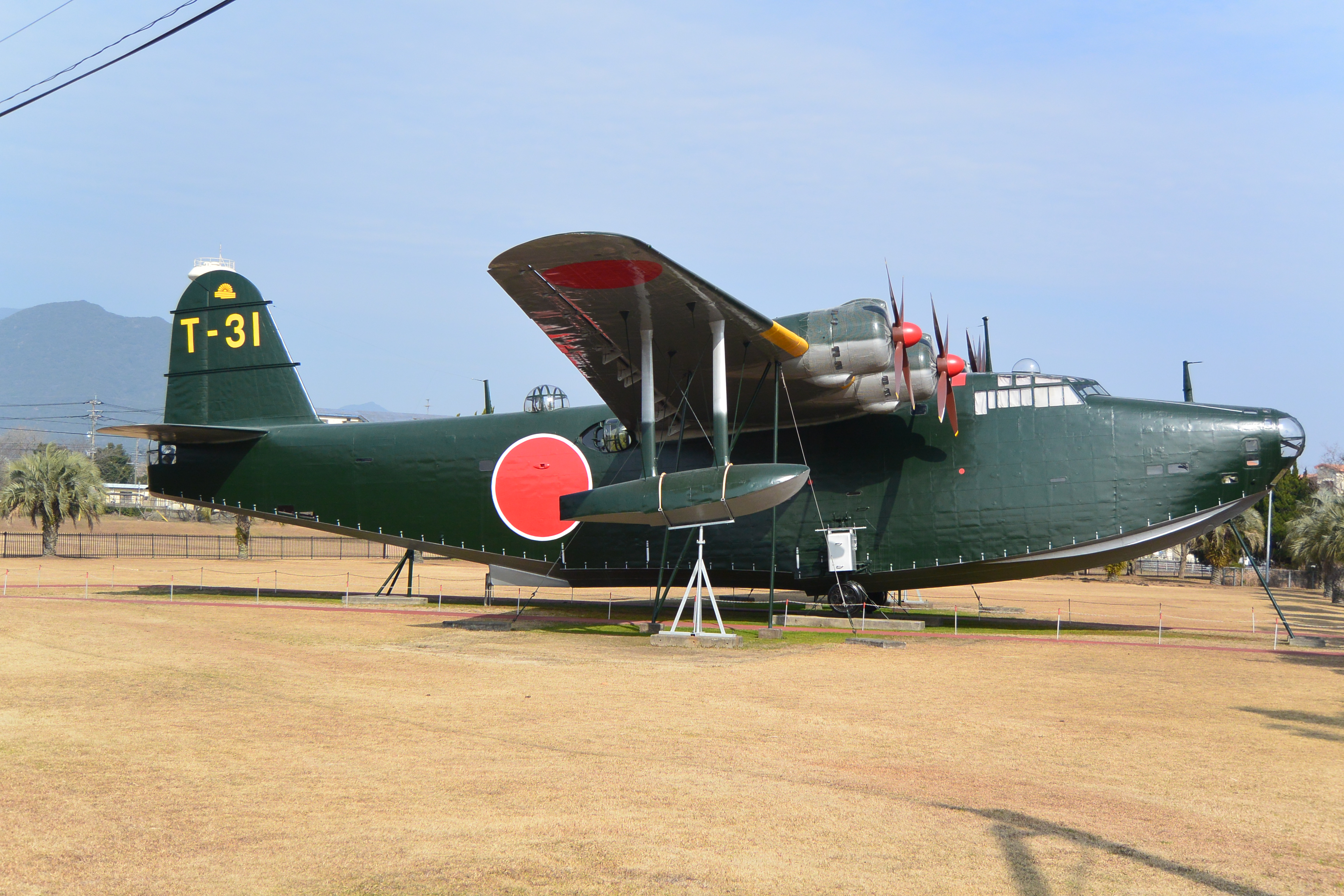 Kawanishi H8K fling-boat at Kanoya base Kyusyu